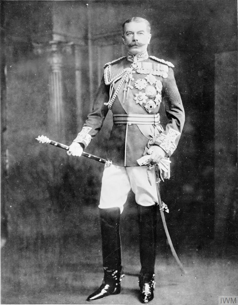 The First World War 1914-1918- Personalities Full length portrait of Field Marshal Earl Kitchener of Khartoum, in full dress uniform and carrying his Field Marshal's Baton, taken shortly after being promoted to the rank and before his appointment as British Governor General of Egypt and the Sudan.